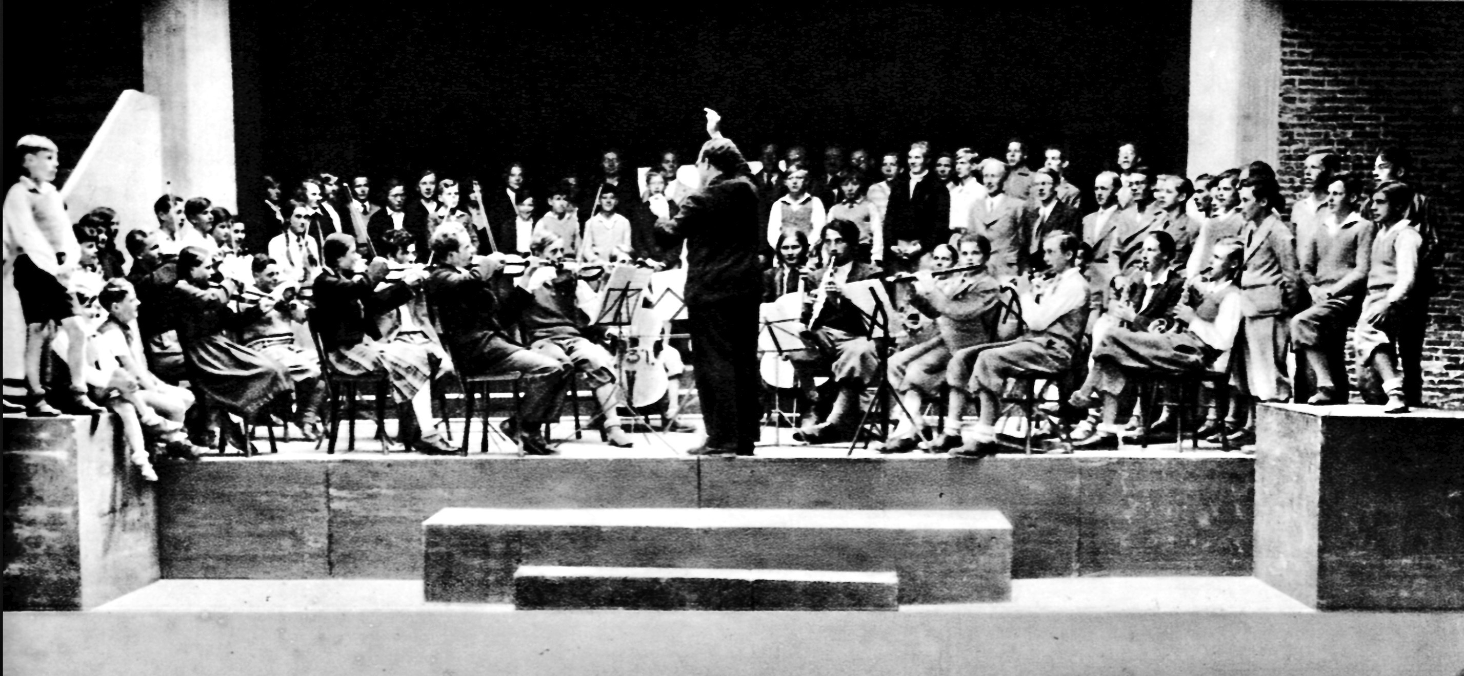 Eduard Zuckmayer (1890–1972) directs the choir and the orchestra of Schule am Meer (= School by the Sea) in its own theater hall. In 1929 it was projected by Bruno Ahrends (1878–1948) and built in 1930/31 on the German island of Juist in East Frisia which was part of Prussia at that time.